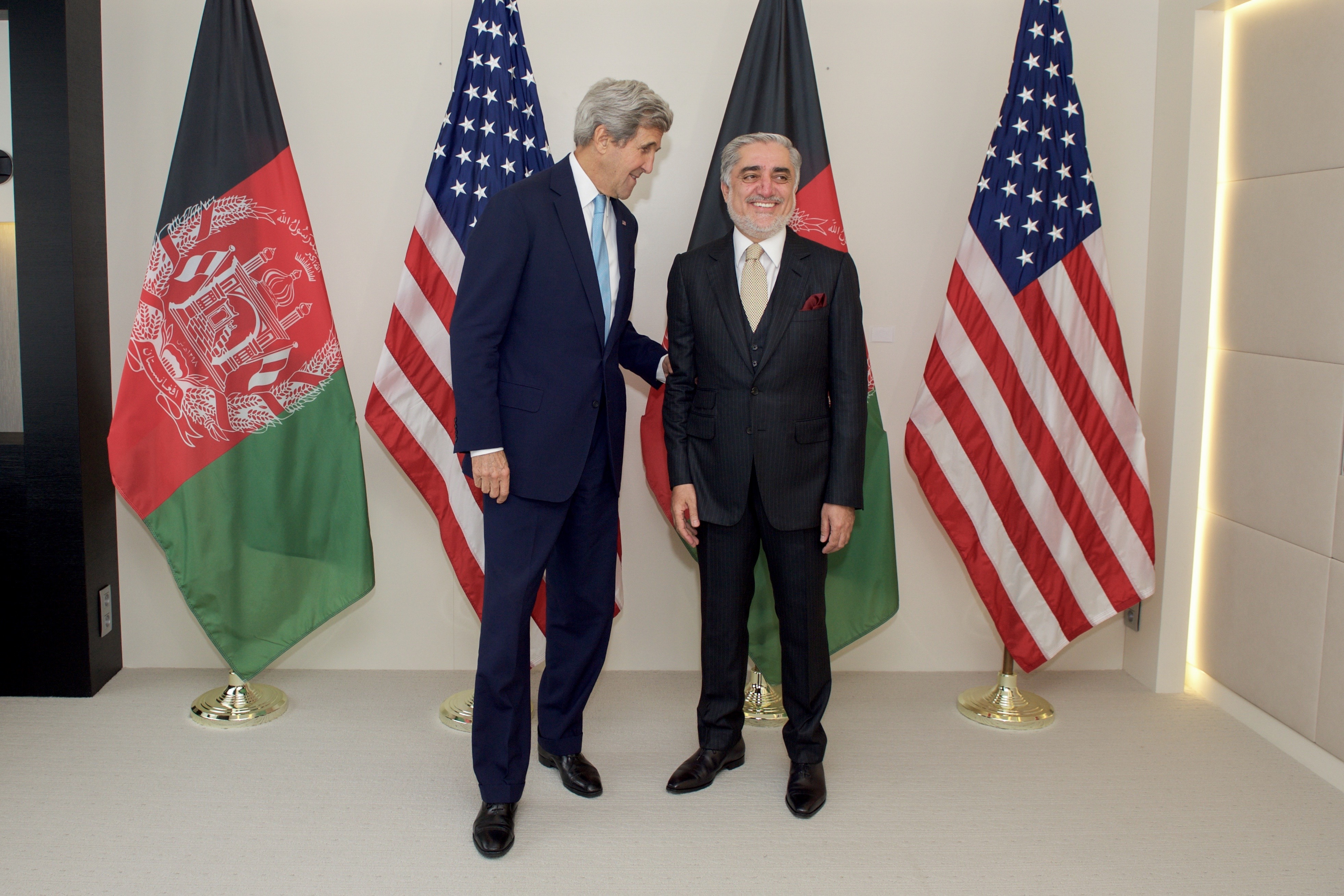 U.S. Secretary of State John Kerry chats with Afghanistan Chief Executive Officer Abdullah Abdullah before a photo spray on October 4, 2016, at The Hotel in Brussels, Belgium, preceding a bilateral meeting before an international Afghan pledging conference. [State Department Photo/ Public Domain]